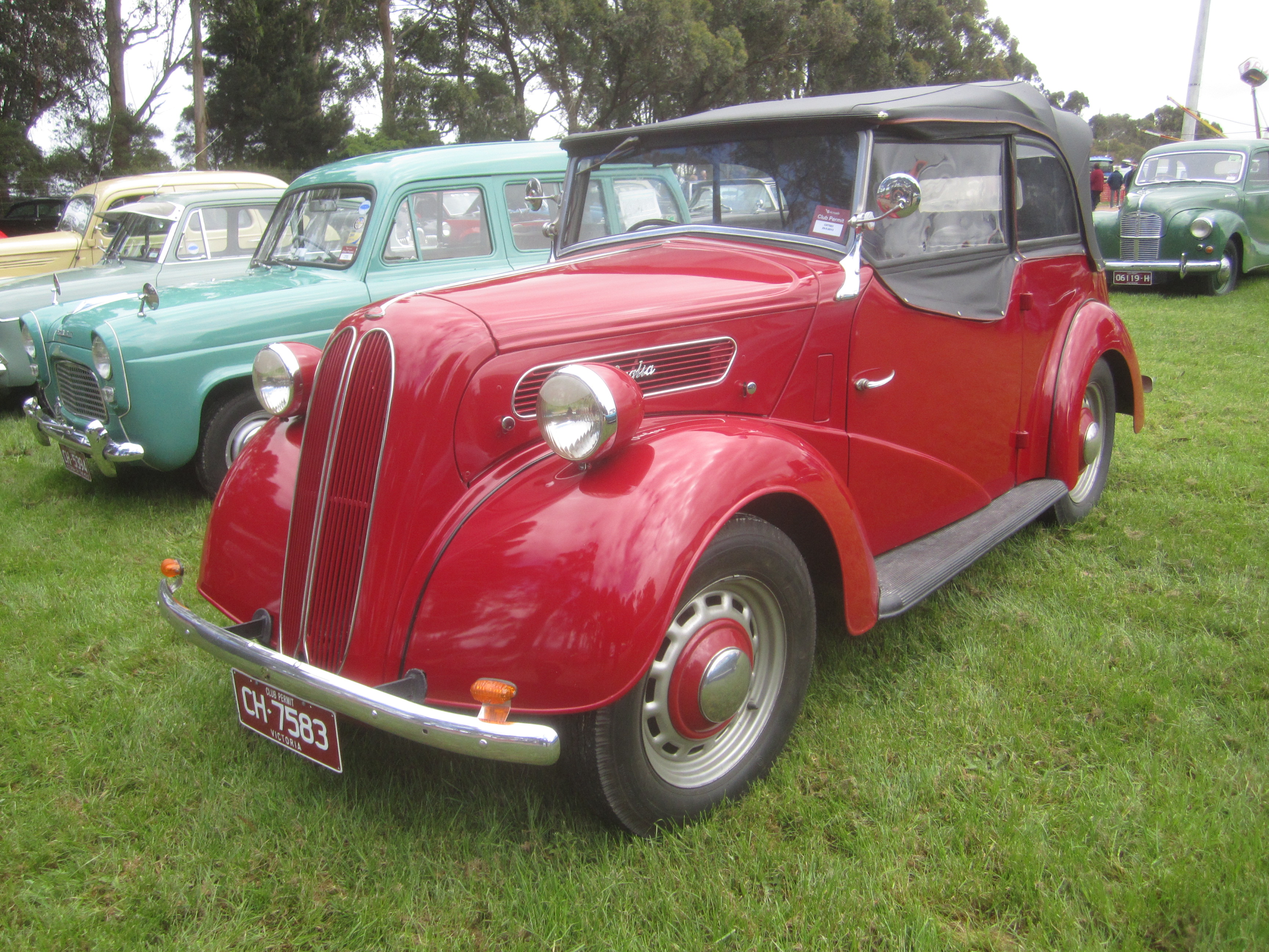 The EO4A Anglia got a facelift in 1949, becoming the E494A, and selling along side the 4 door E493A Prefect. It was only available as a 2 door saloon and panel van in the UK, but in Australia, as the A494A Anglia, it was produced as a 4-door Saloon, 2 door Tourer, Roadster Utility and Coupe Utility. After the new 100E was introduced in 1953, this shape did continue on as a low budget alternative until 1959 as the Ford Popular. Engines; 993 4 cyl sidevalve & 1172 4 cyl sidevalve